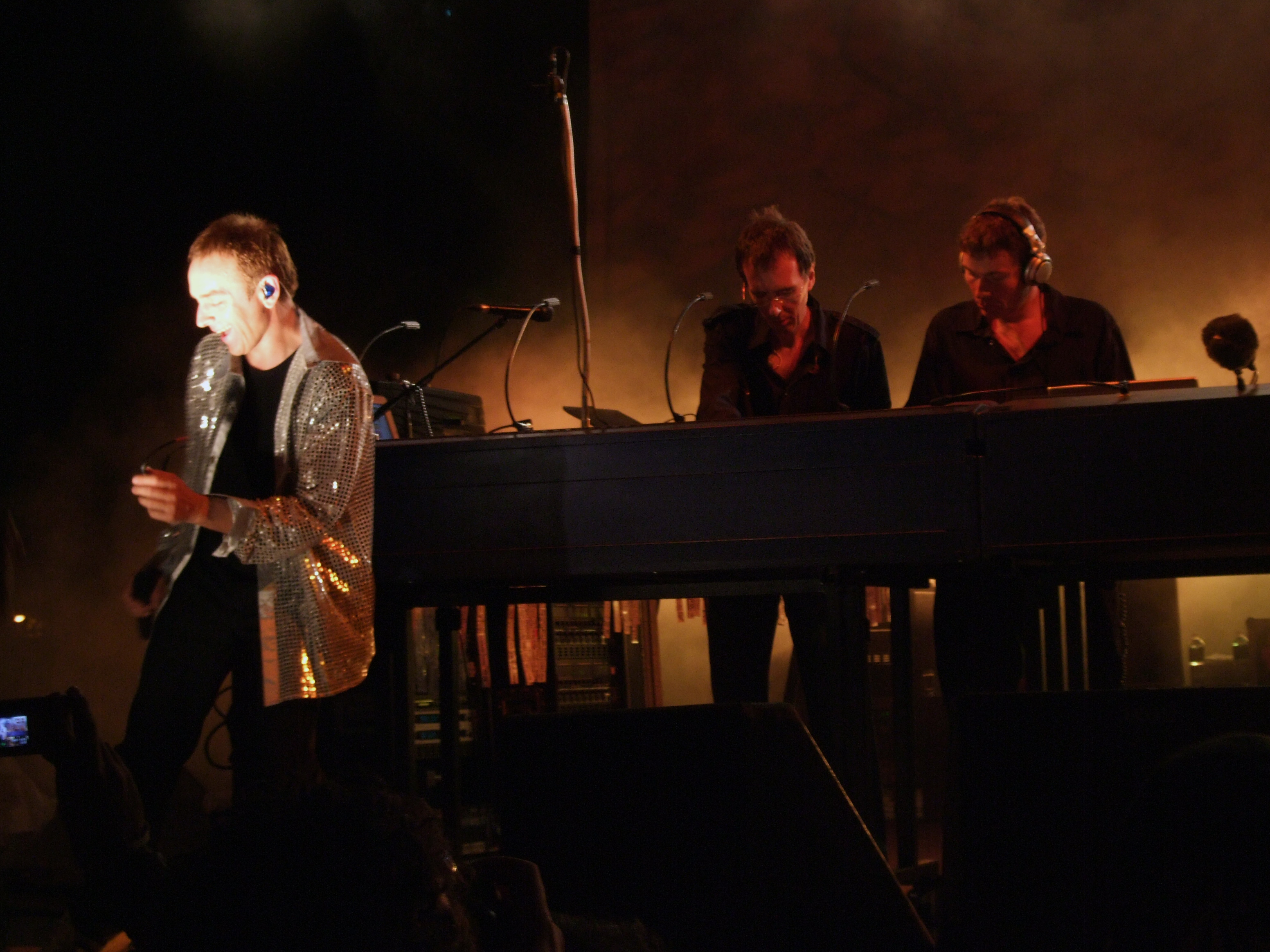 Copied from Image:Underworldlivenewyork2007.jpgUnderworld performing "Jumbo" live in Central Park, New York City, USA, on September 14, 2007.